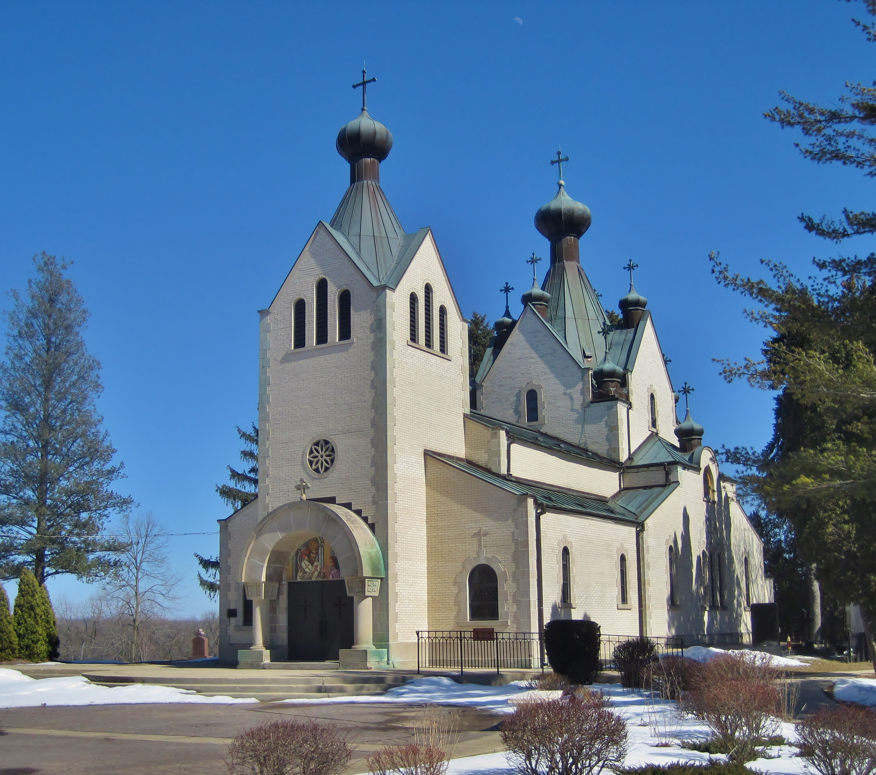 Church of the St. Sava Serbian Orthodox Monastery in Libertyville (1925). It is the headquarters of the Sebrian Orthodox Church in the United States and Canada, and is the headquarters of the Serbian Orthodox Diocese of New Gracanica - Midwestern America. Serbian immigrants came to America to work in Pittsburgh and Cleveland steel mills. Many moved to Chicago to work in the slaughterhouses and factories. During the Nazi occupation of Yugoslavia, the Chicago area became an area of refuge for those able to escape. Peter II of Yugoslavia lived at the monastery in exile following his ousting by Josip Broz Tito. He died there in 1970 and became the first European monarch buried in the United States. This January, it was announced that Peter's remains will be returned to the Royal Family Mausoleum in Oplenac, Serbia.